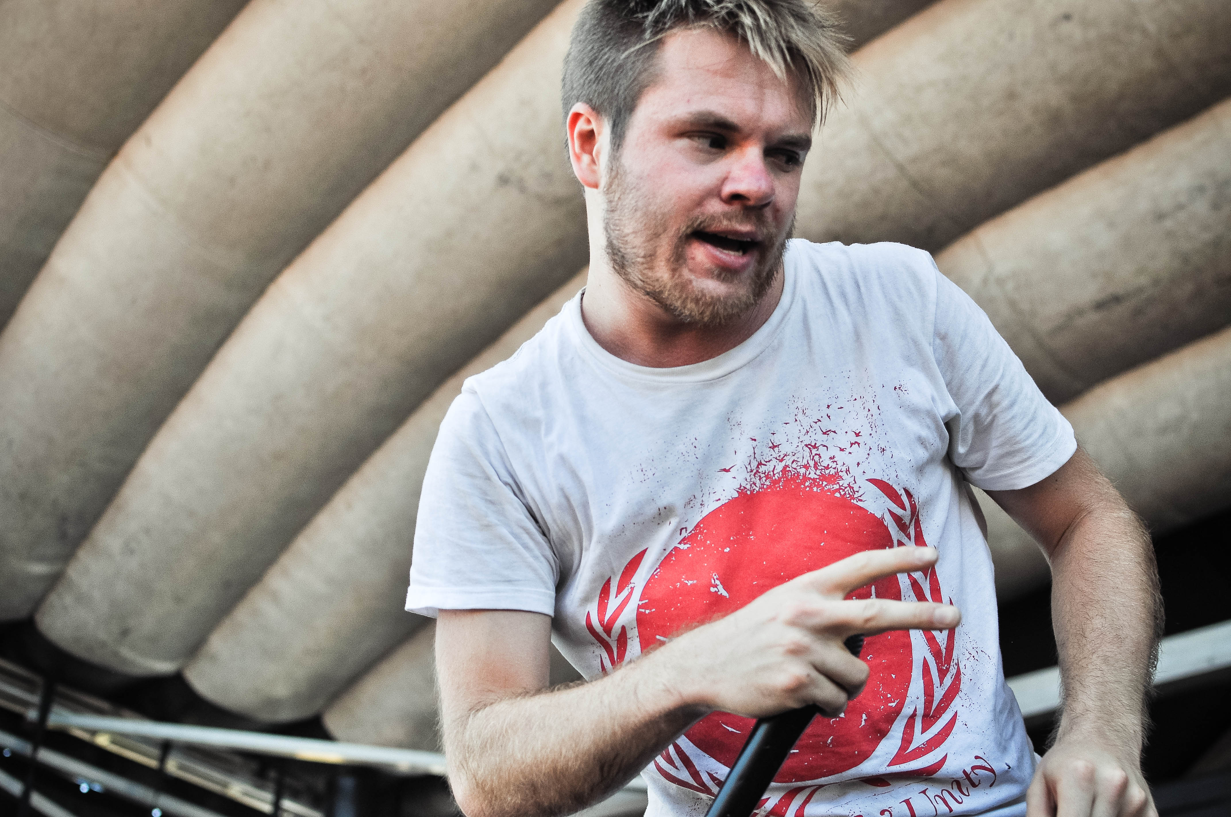 Enter Shikari singer Roughton "Rou" Reynolds performing in 2011